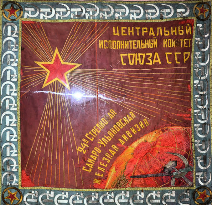 The banner of the 24th Samara-Ulyanovsk «Iron» Division from the Central Executive Committee of the USSR.